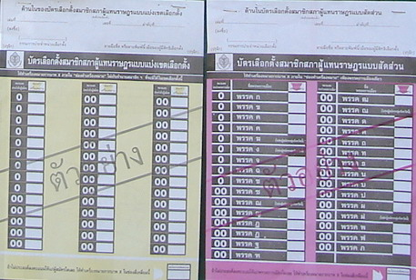 Thai general election, 2007. Picture take in Ban Khung Taphao Uttaradit,Thailand. (Thai general election, 2007)